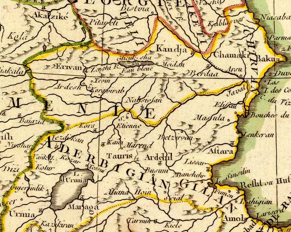 Carte de l'Empire de Perse. Projettee et assujettie aux observations astron. par Mr. Bonne, Hydrographe du Roi. A Paris, Chez Lattre Graveur, ordinaire de Monseigr. le Dauphin, rue S. Jacques a la Ville de Bordeaux. Avec privilege du Roy. 1787. Arrivet inv. & sculp.